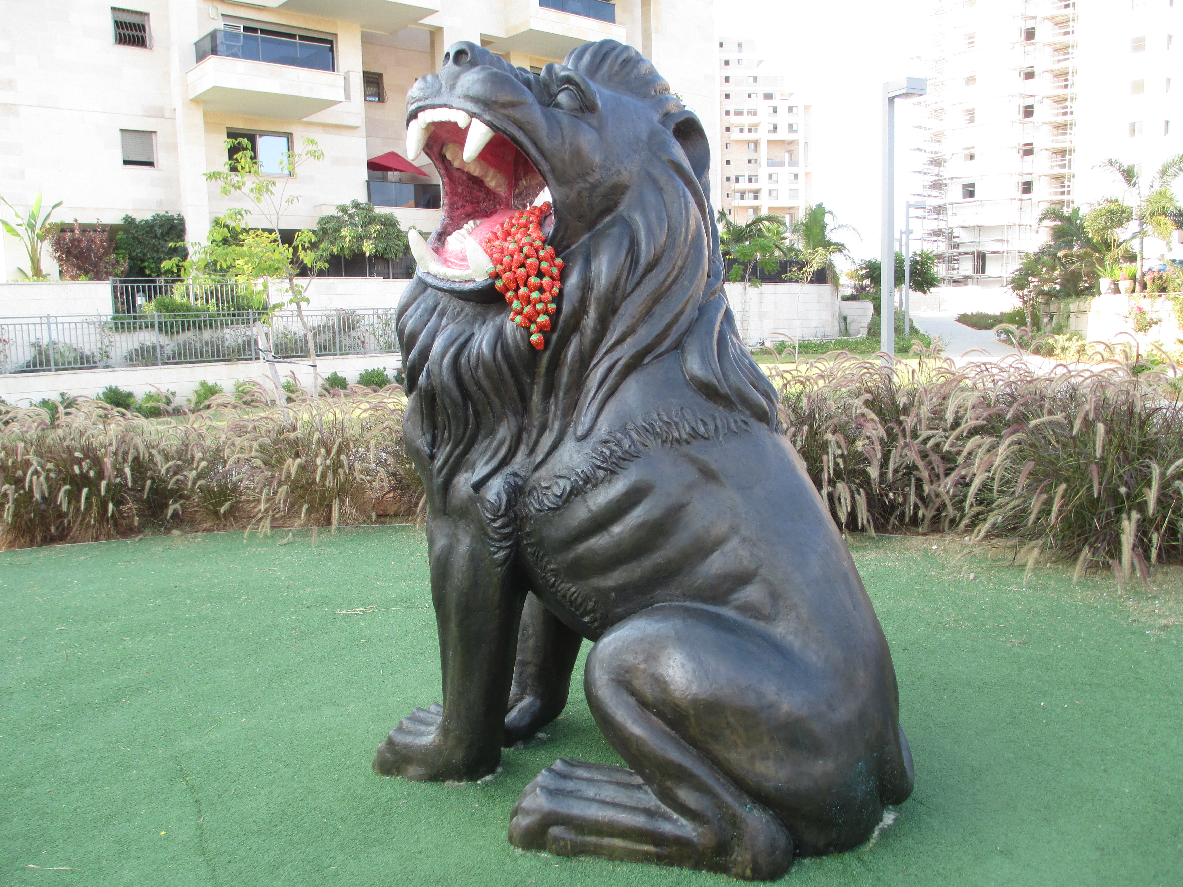 The lion that loved strawberry story garden in Holon